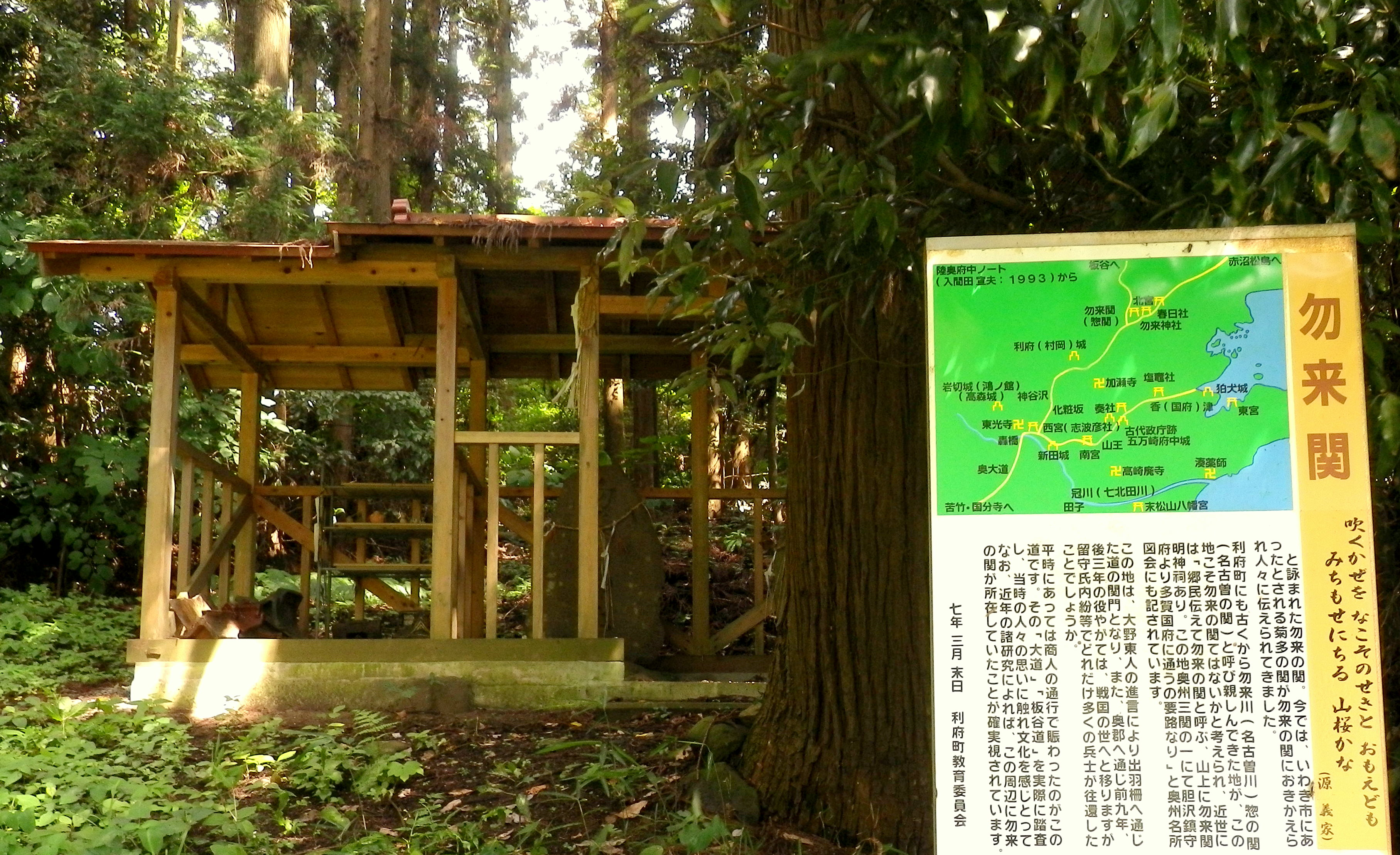 In the Edo period, Den-emon erected a monument of Nakoso Jinja shrine by a local legend. It is situated with a shelter in Rifu town, Miyagi prefecture.